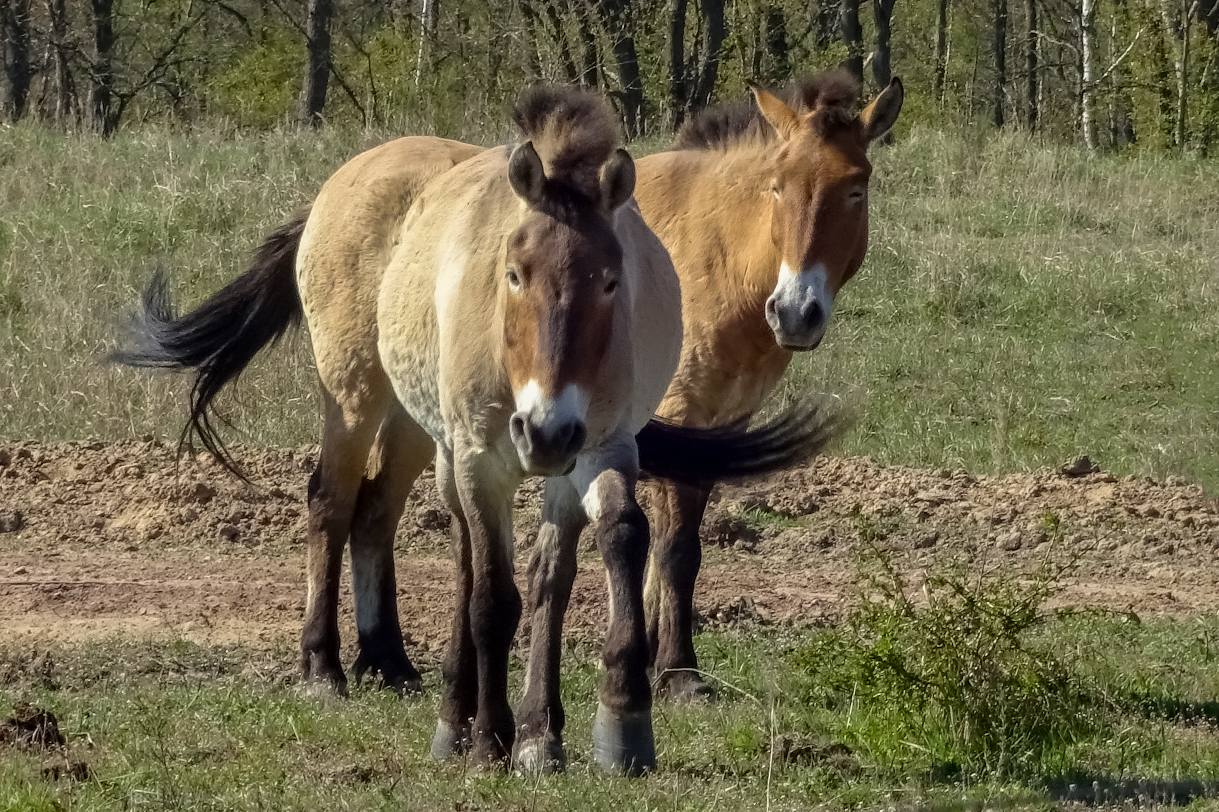 wild Przewalski horses at nature reserve Döberitzer Heide west of Berlin